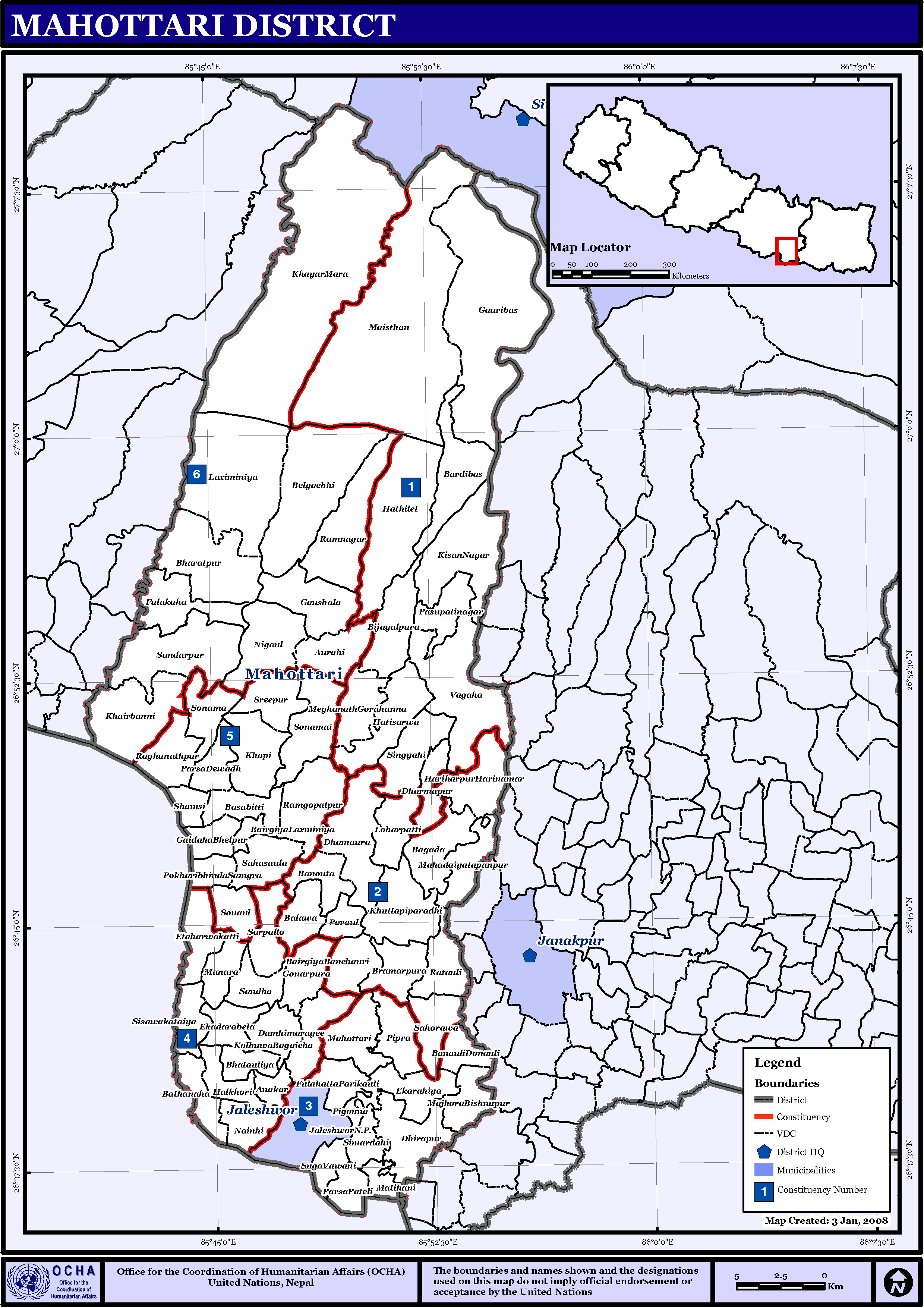 Map displaying Village Development Committees in Mahottari District, Nepal